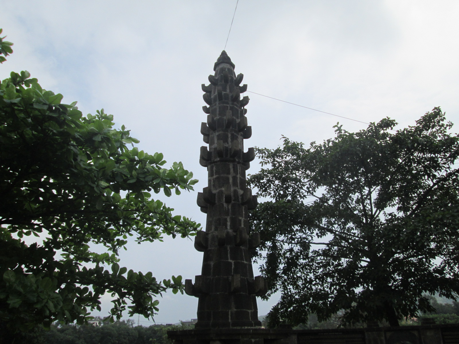 A victory pillar commemorating Indian victory over British forces in First Anglo-Maratha War